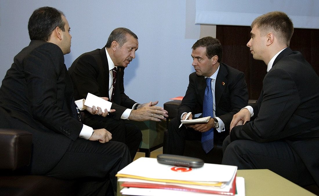 G-20 summit in Pittsburgh. Turkish Prime Minister Recep Tayyip Erdogan with Russian President Dmitry Medvedev.